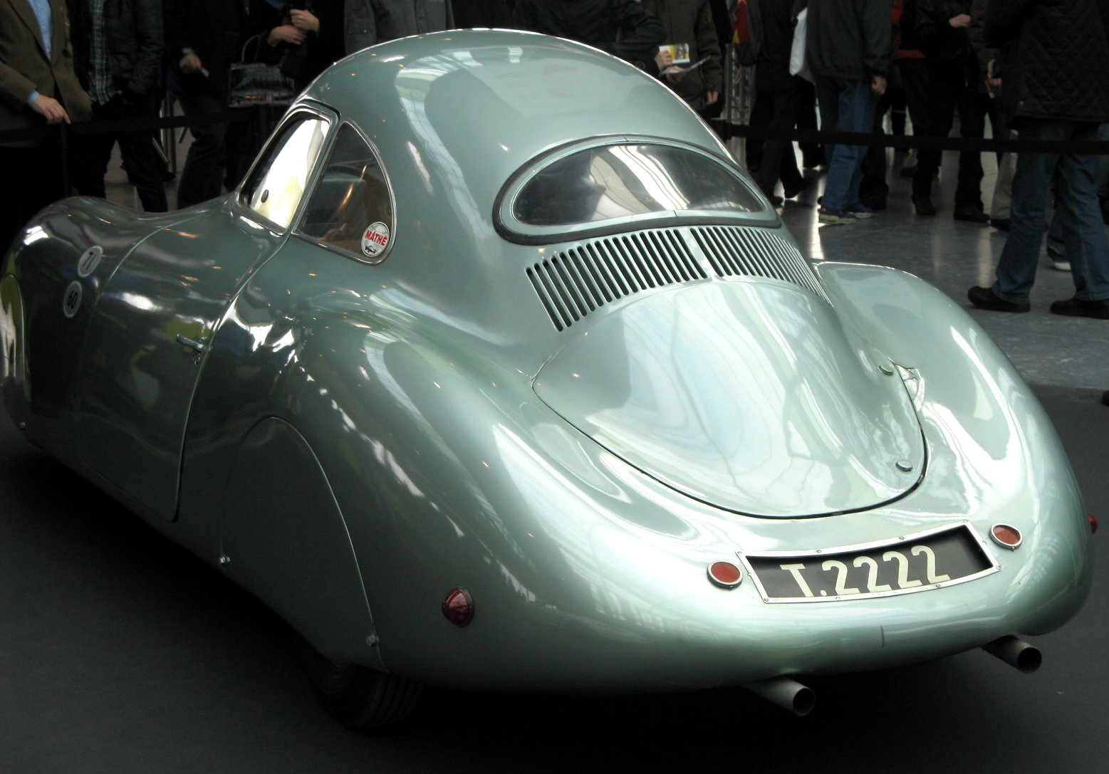 1939 Porsche Type 64 Berlin-Rome-car